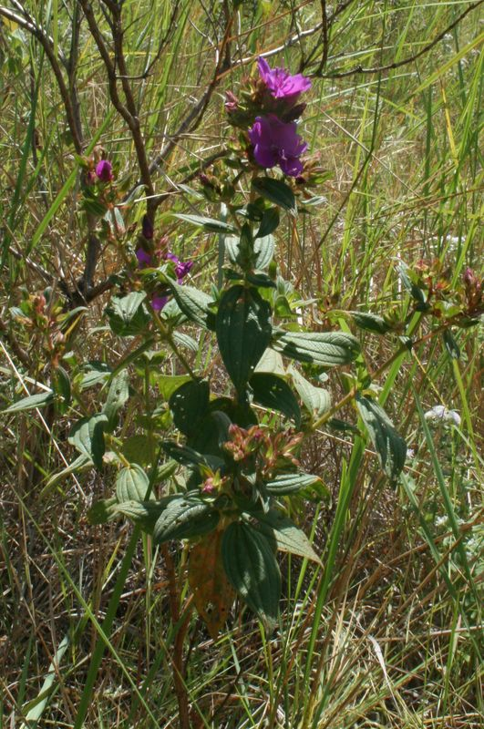 Flowering Rhynchanthera grandiflora, savana near Cacuri, Venezuela